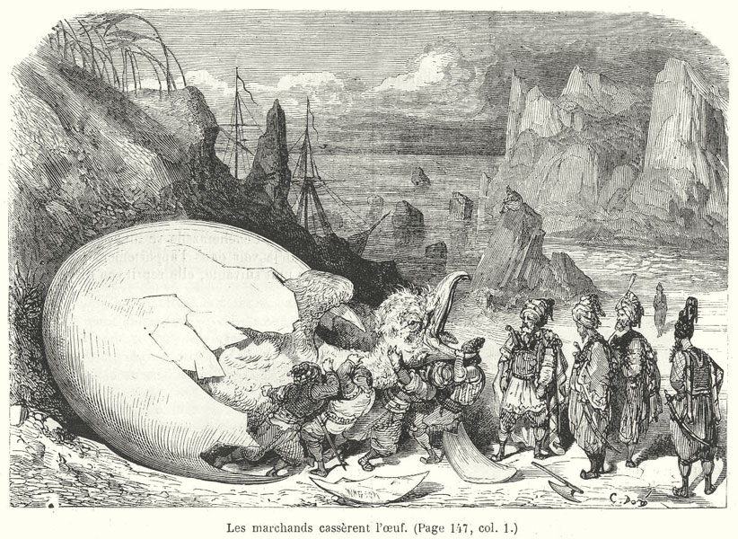 An episode from the 5th voyage of Sinbad the Sailor in the "One Thousand and One Nights". Illustration from "Les Mille et une nuits", par Galland - Paris, 1865.